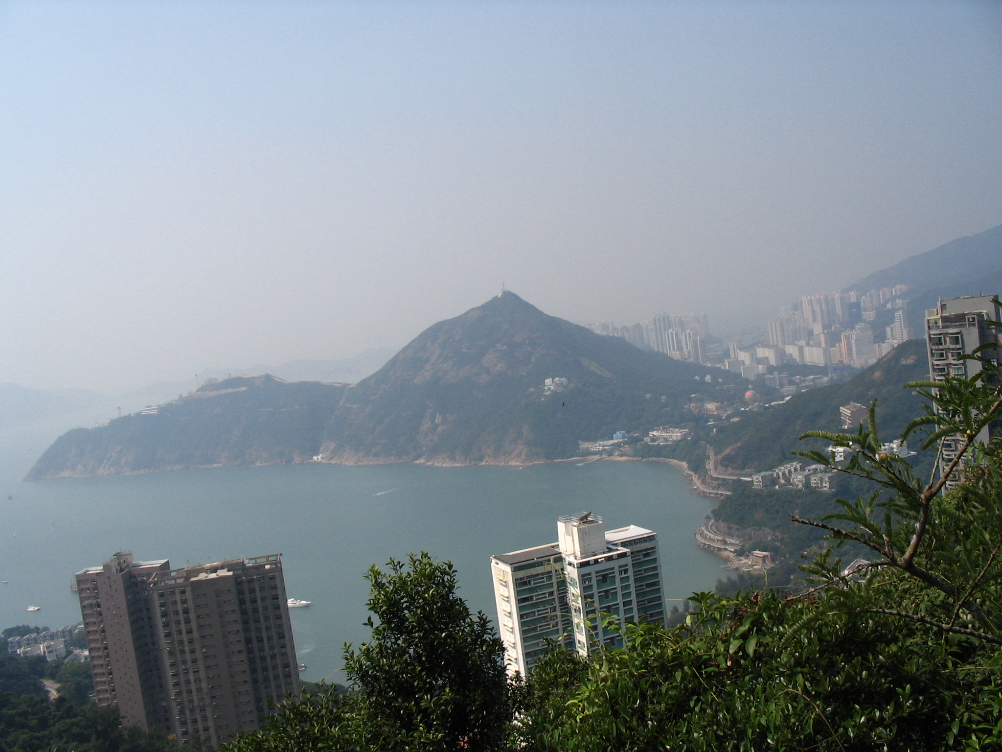 Photo of Nam Long Shan (Brick Hill)